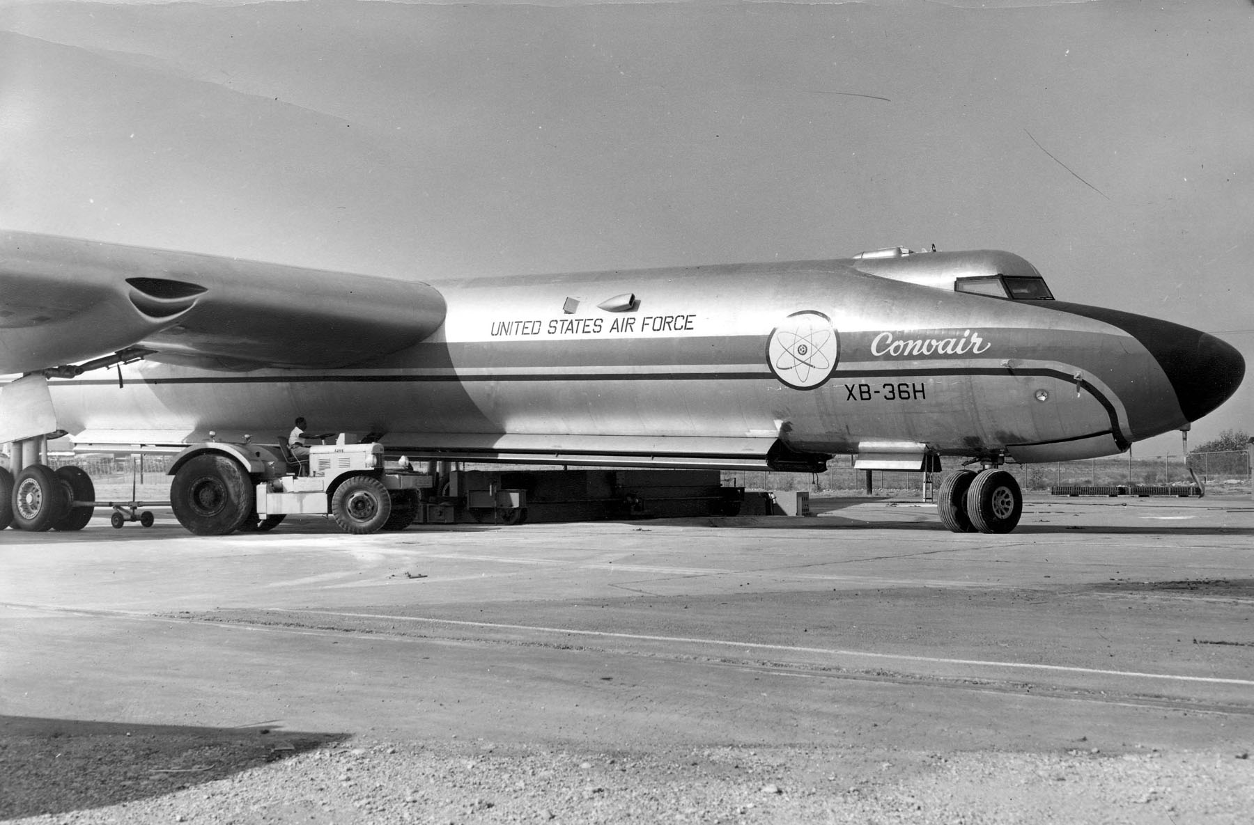 NB-36H front section.